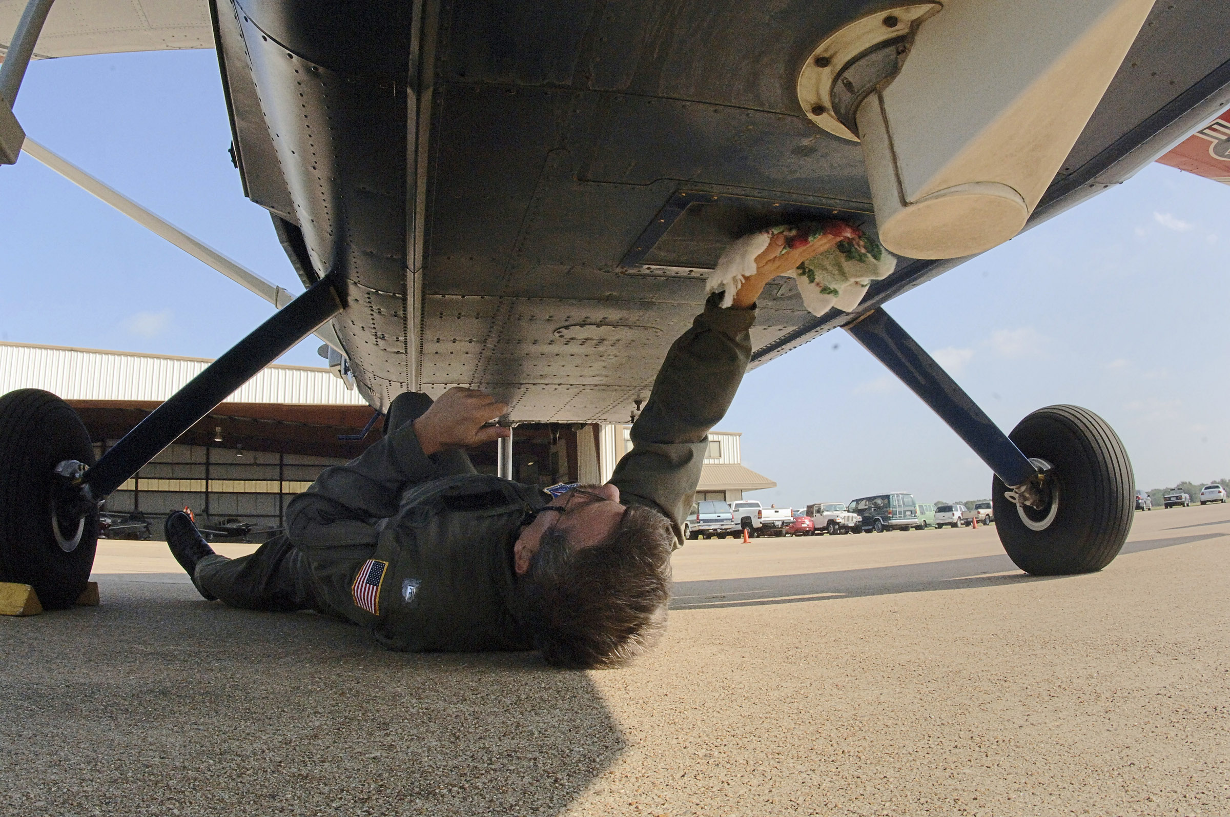 First Lt. G. Paul Roberts cleans the quartz glass portal of the airborne real-time cueing hyperspectral enhanced reconnaissance system aboard an Australian made Gippsland Aeronautics "Airvan" aircraft at the West Houston Airport. His Civil Air Patrol mission here will be to detect oil spills and pollution in the affected region of Hurricane Rita.